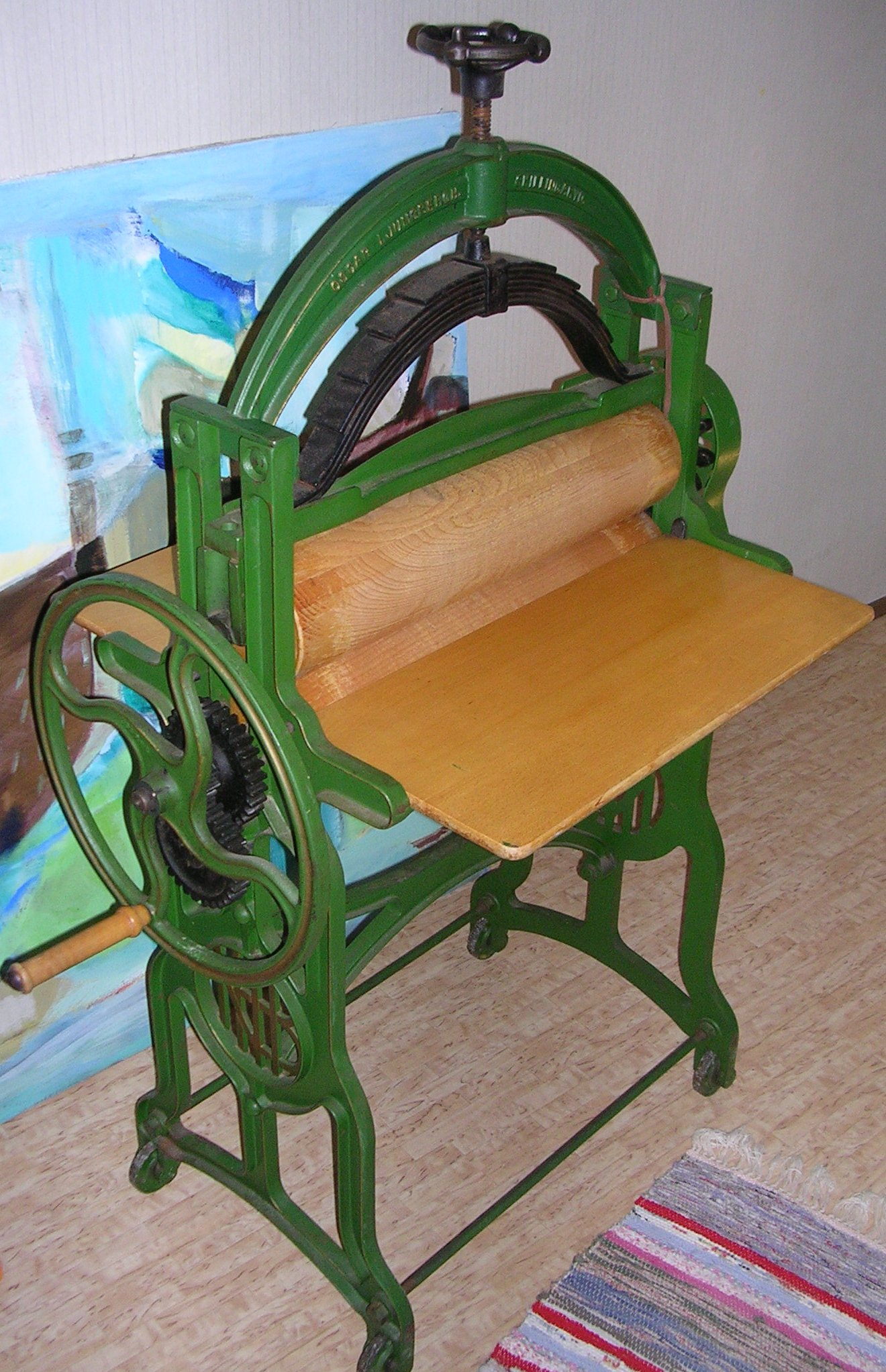 Photograph by me (Johan Palme). I own the Mangle in question.